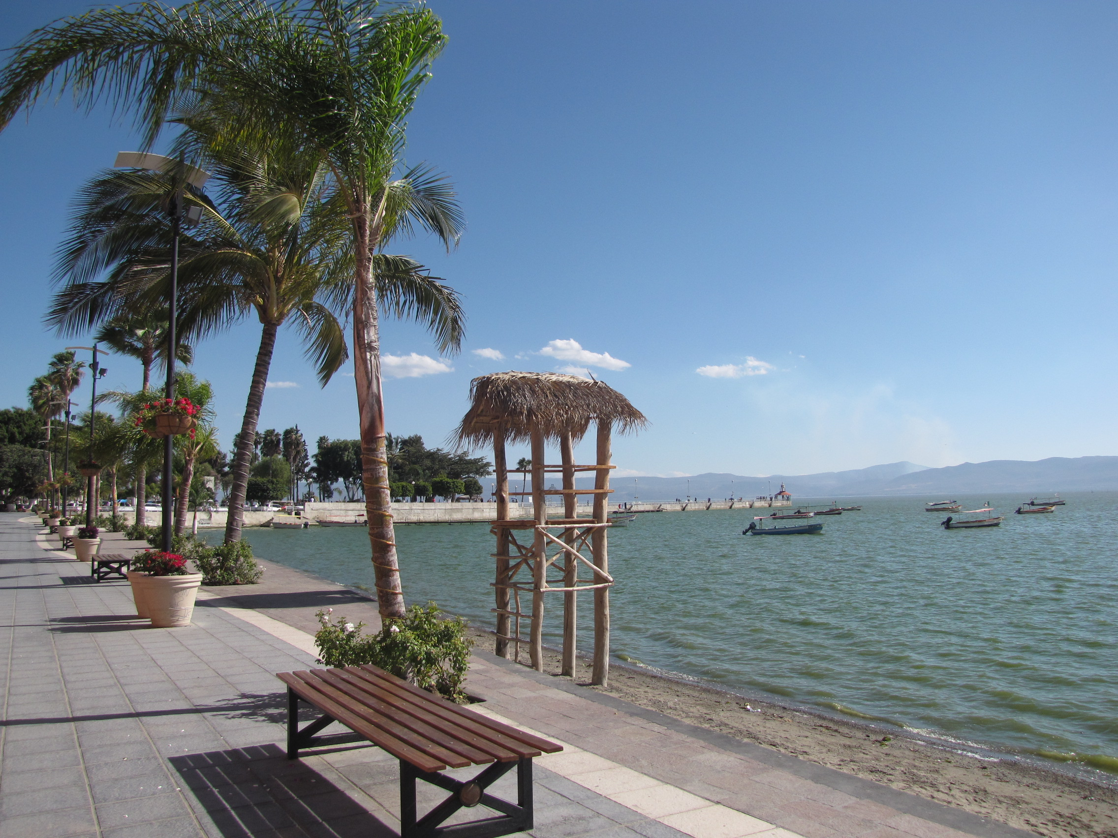 A view of the lake and the beach from the Chapala Malecon